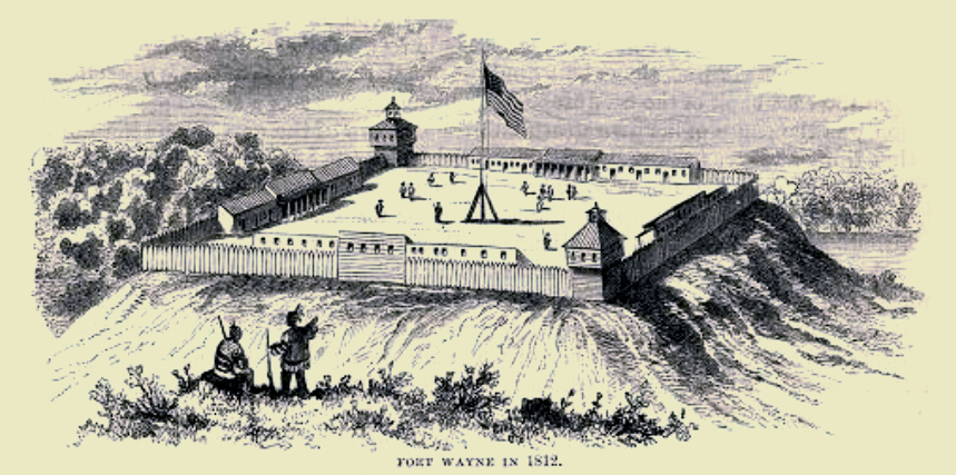 Fort Wayne in 1812. The garrison consisted of 70 men with four small field-pieces commanded by captain James Rhea.